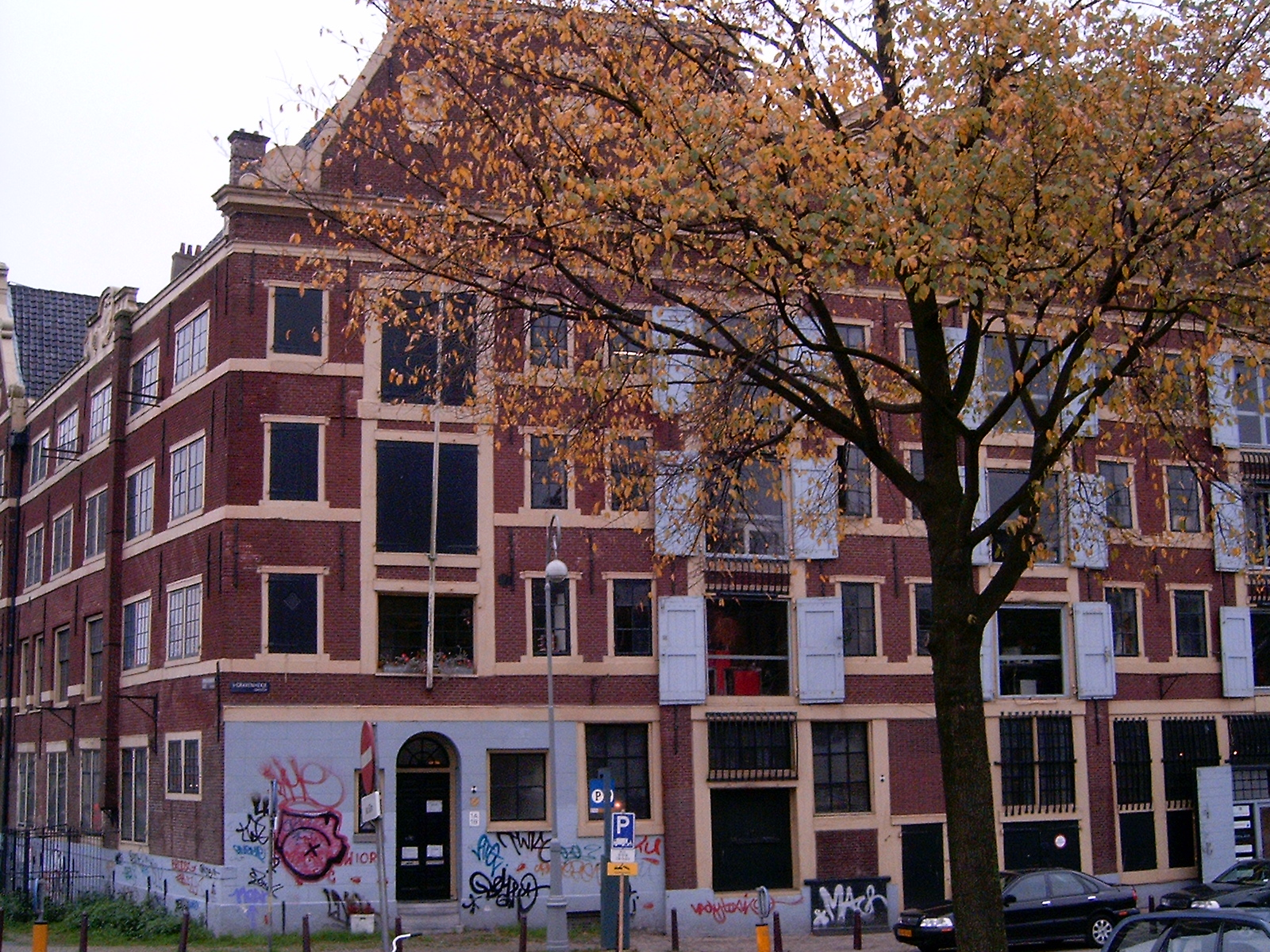 Warehouse of the WIC in Amsterdam